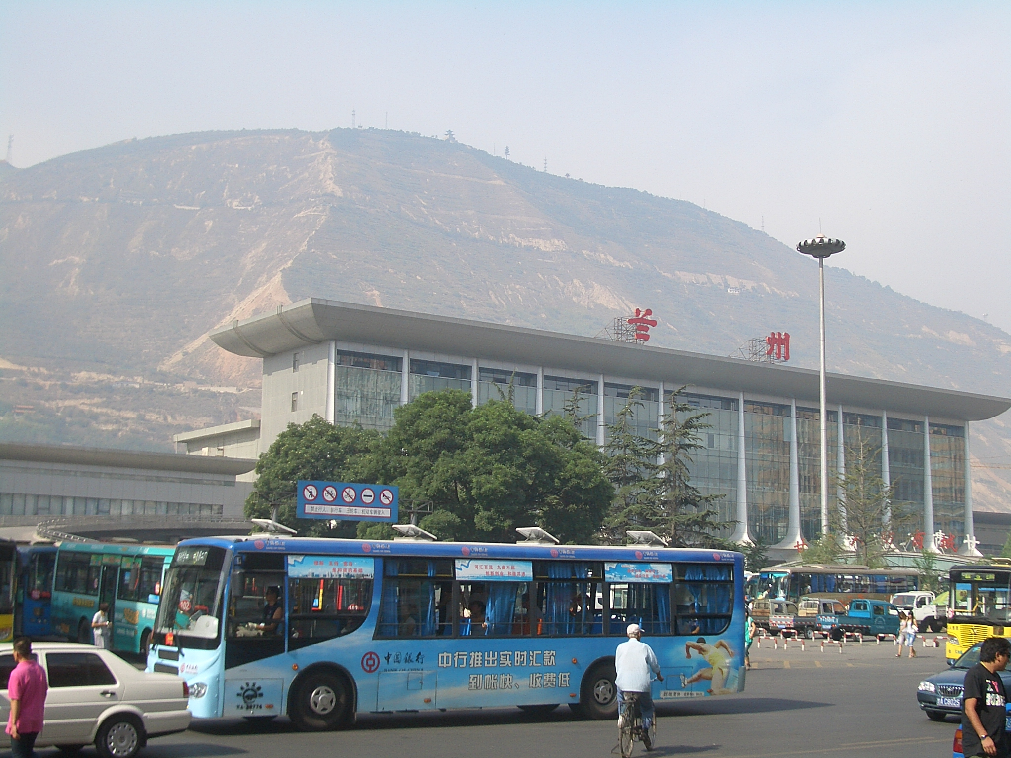 Moana, SA seen from the coastal recreational south of town